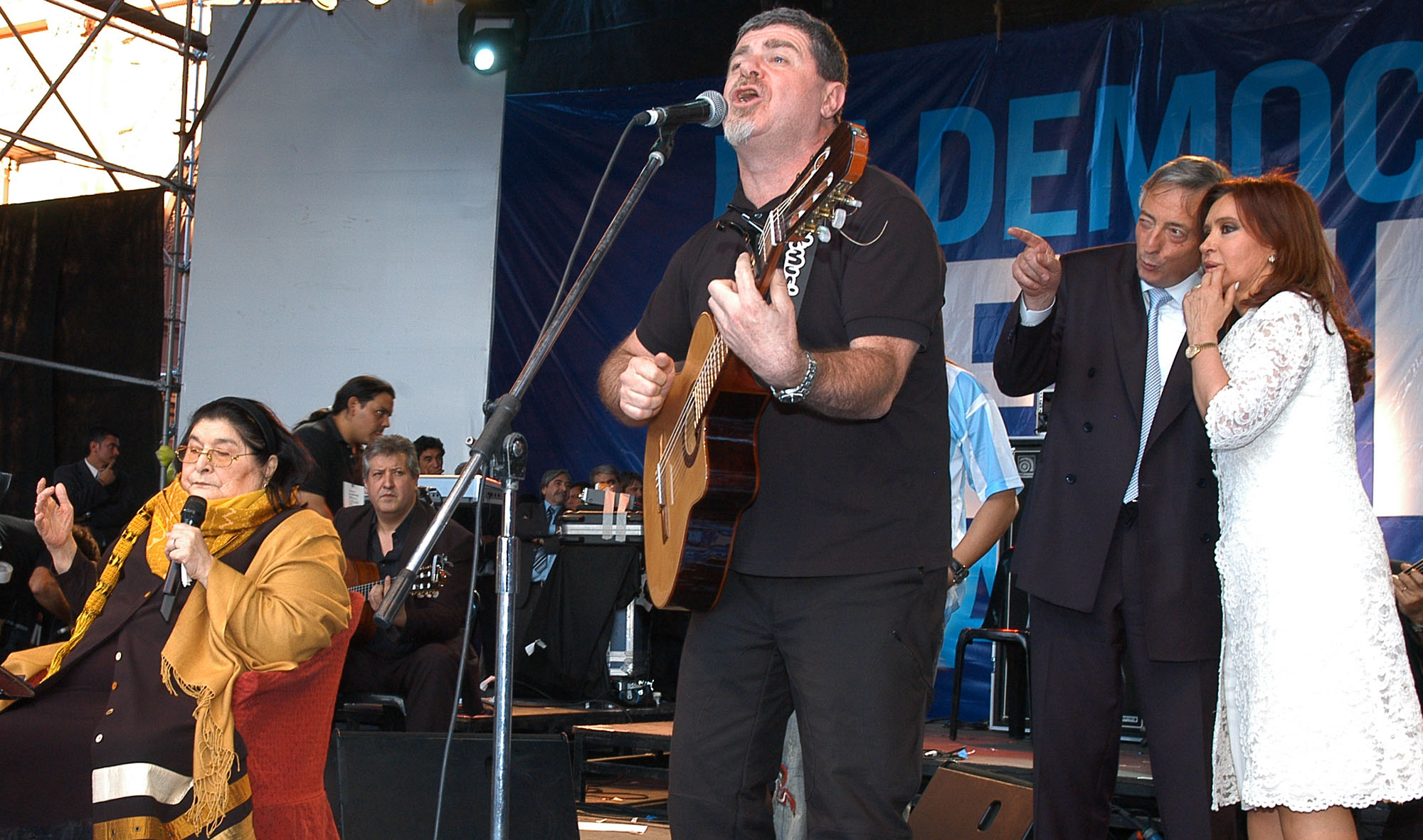 Mercedes Sosa & Gustavo Santaolalla in Plaza de Mayo (Buenos Aires Argentina). Concert when Cristina Fernández de Kirchner begun her administration - 10dic07